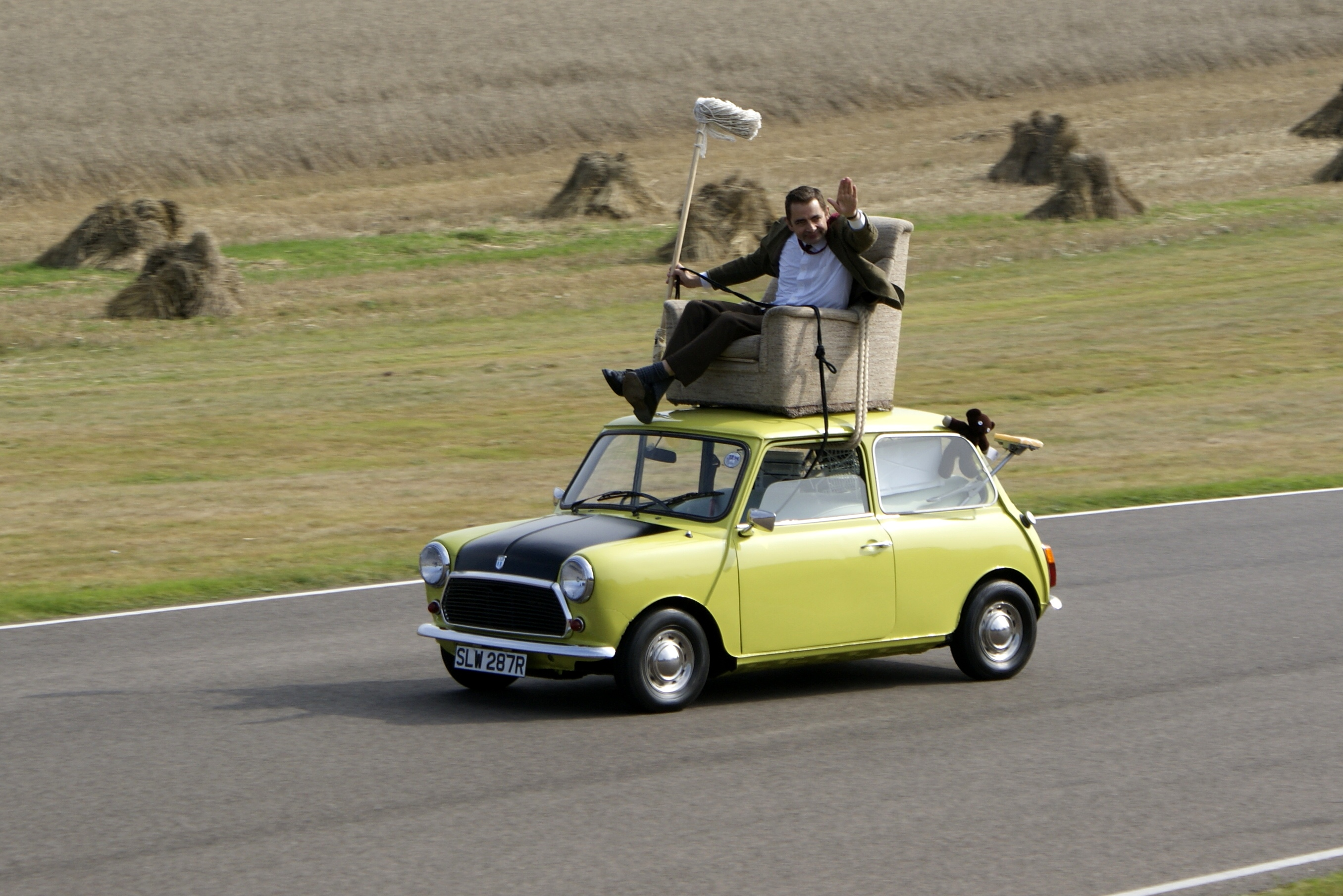 Rowan Atkinson on a Mini at Goodwood Circuit in 2009, demonstrating a famous scene from the Mr. Bean series.